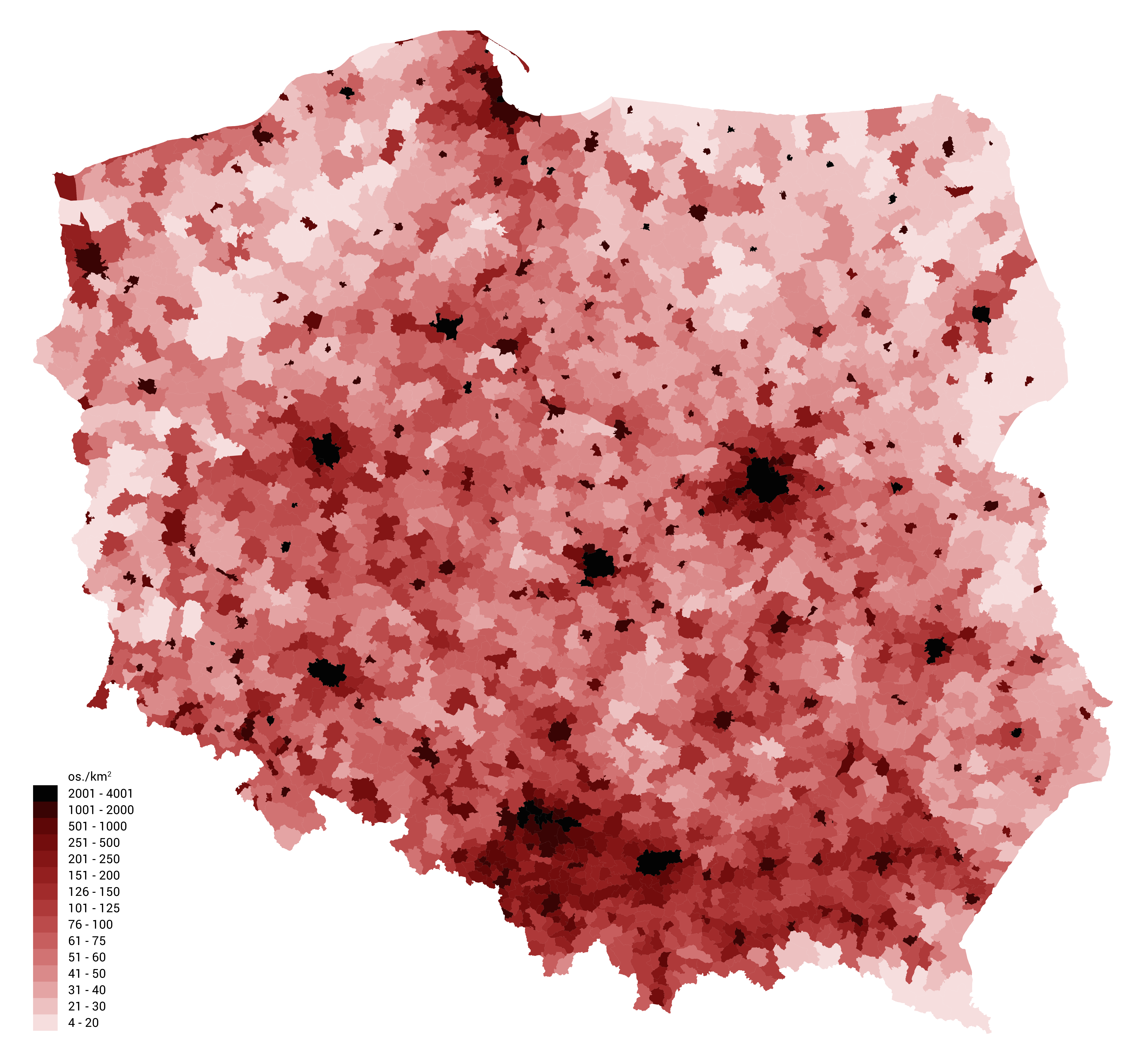 Population density per gminas in Poland in 2016